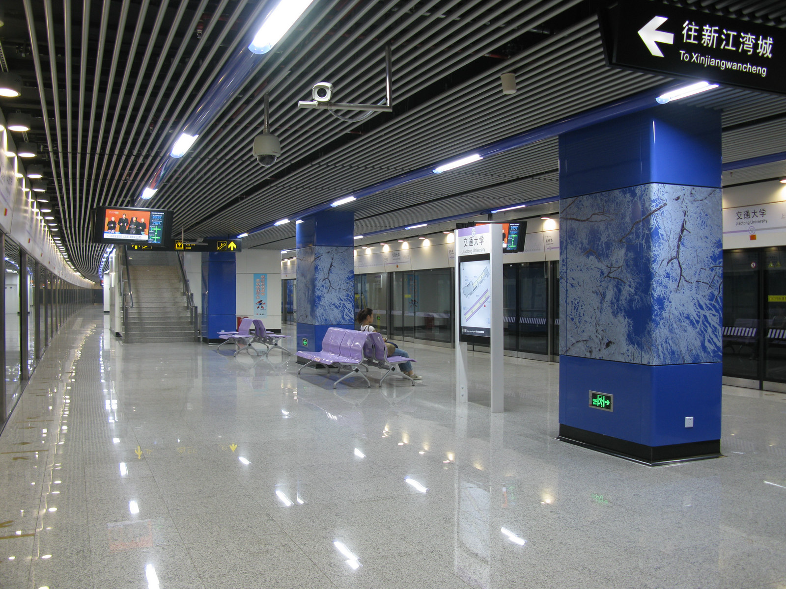 Line 10 Platform of Jiaotong University Station, Shanghai Metro